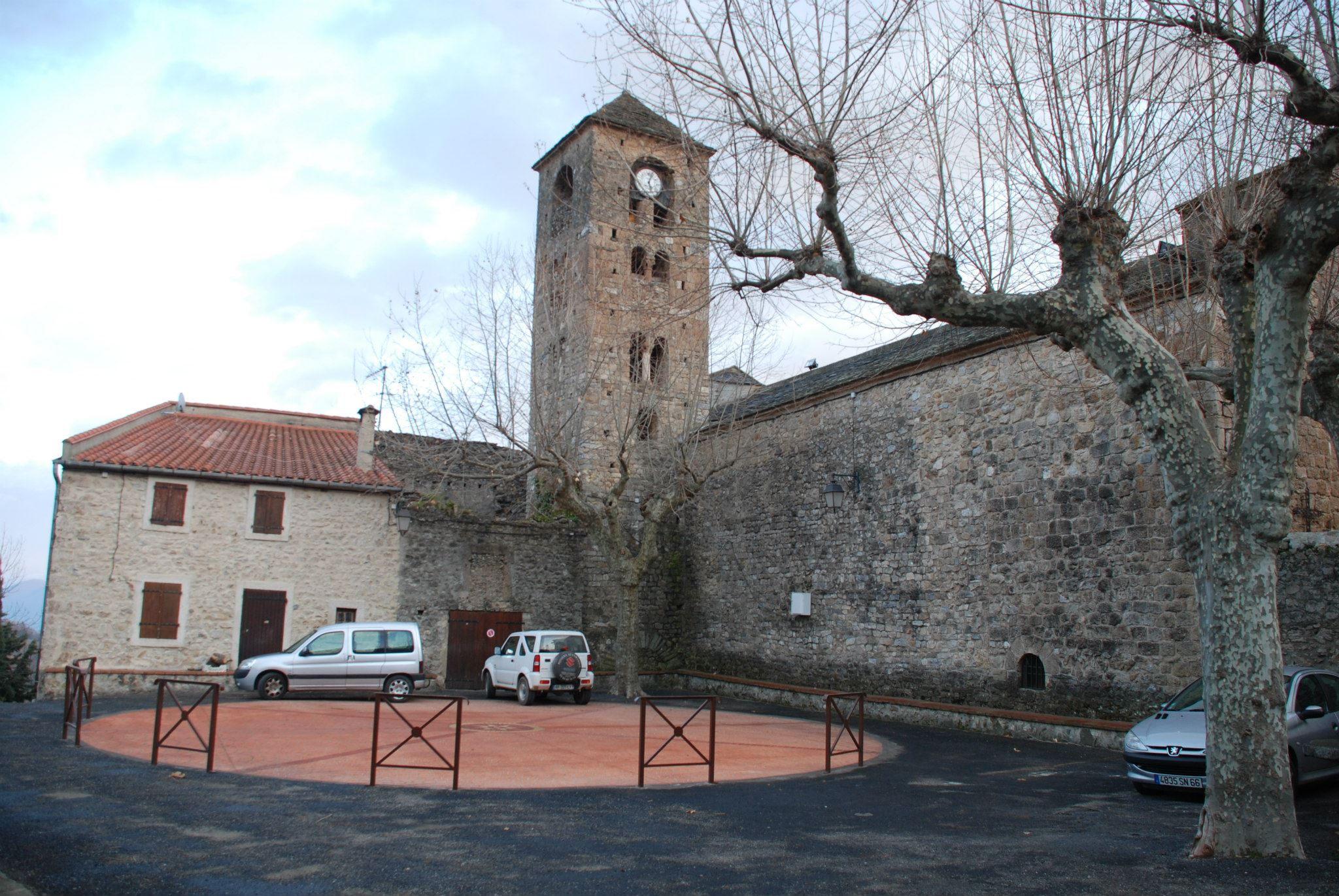 Church of Montferrer, in Northern Catalonia